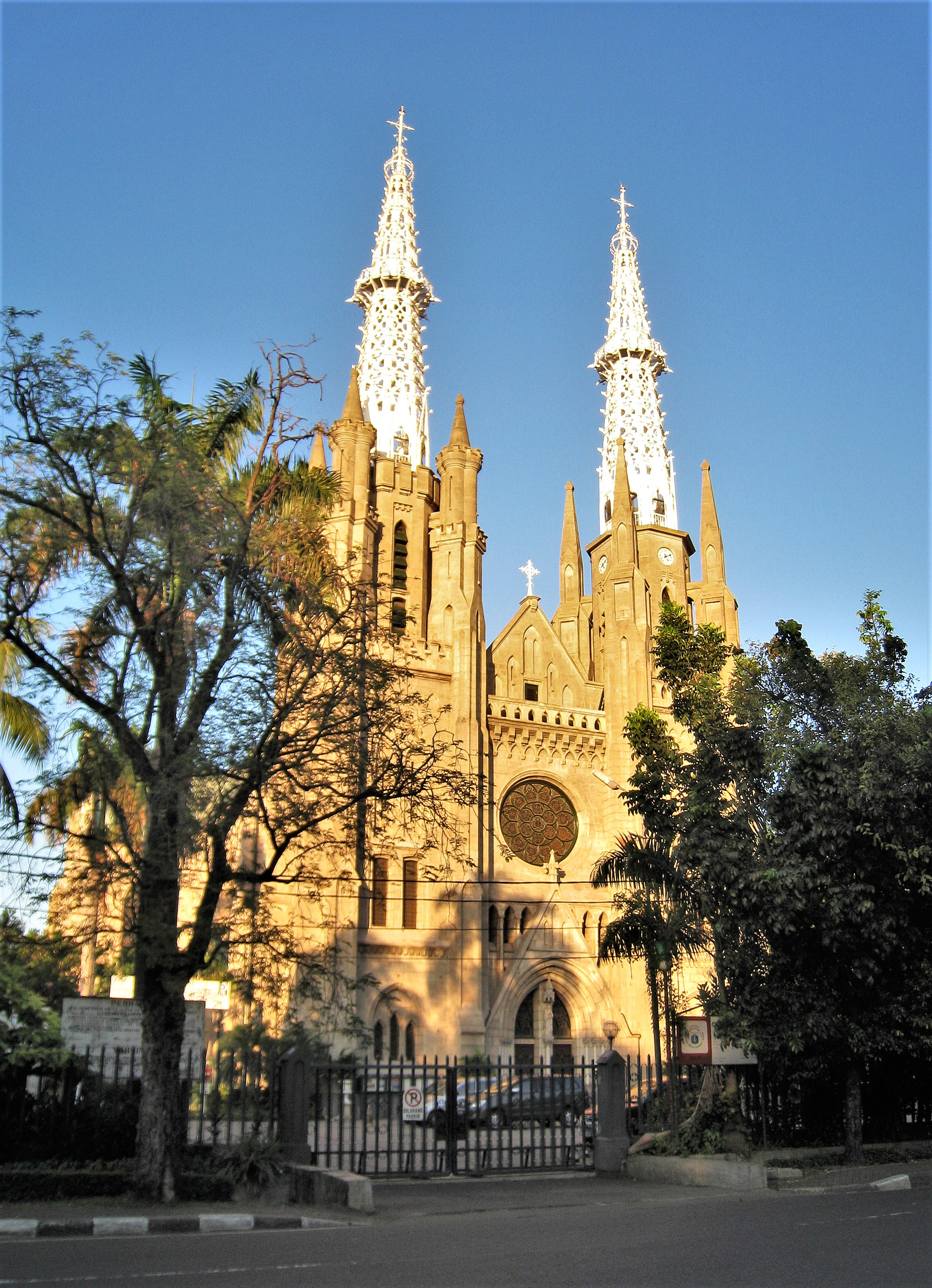 Jakarta Neo-Gothic style "The Church of Our Lady of the Assumption" Cathedral in the afternoon. One of the most beautiful historical building in Jakarta.